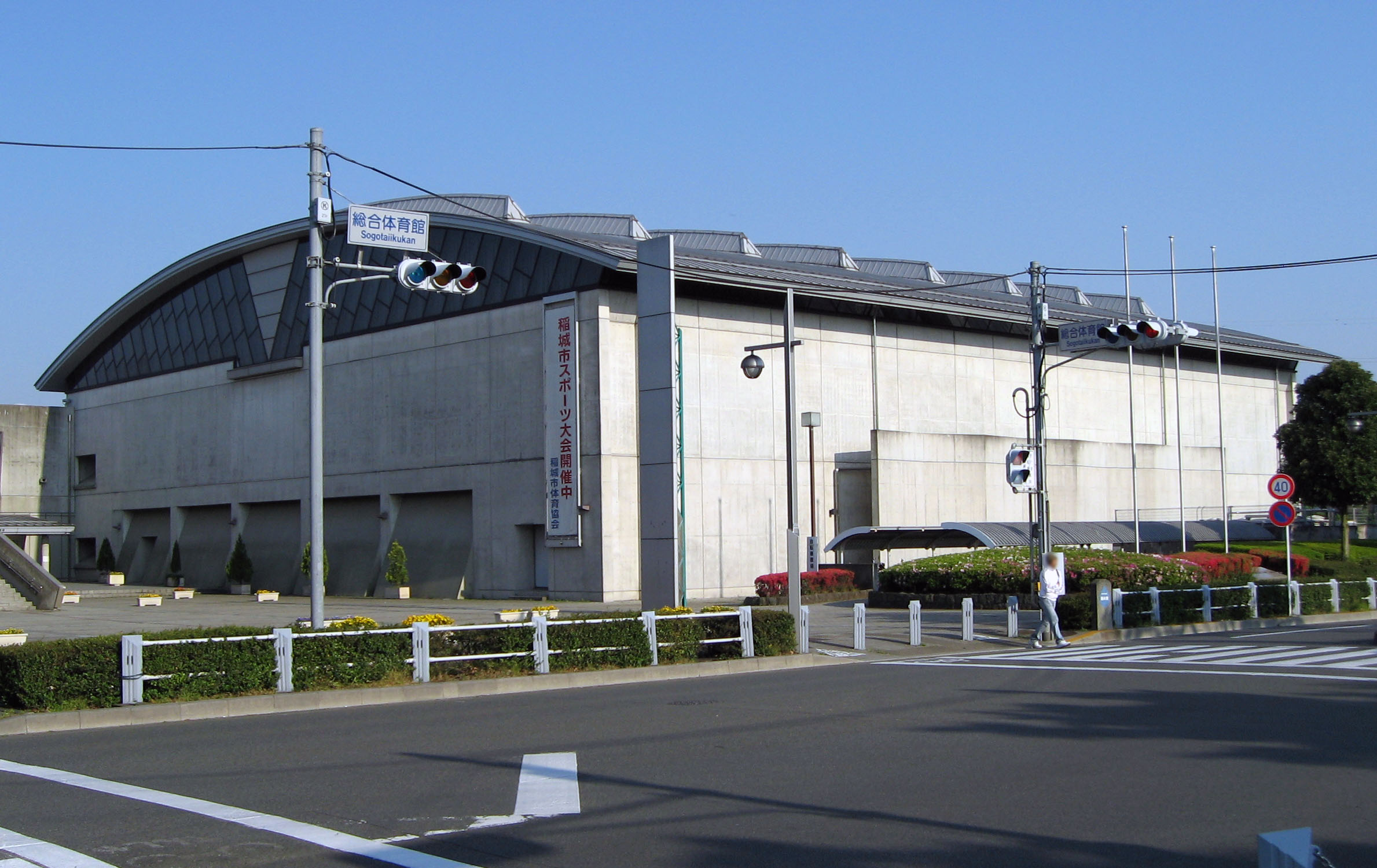 Gimnasium of Inagi City, Tokyo, Japan.